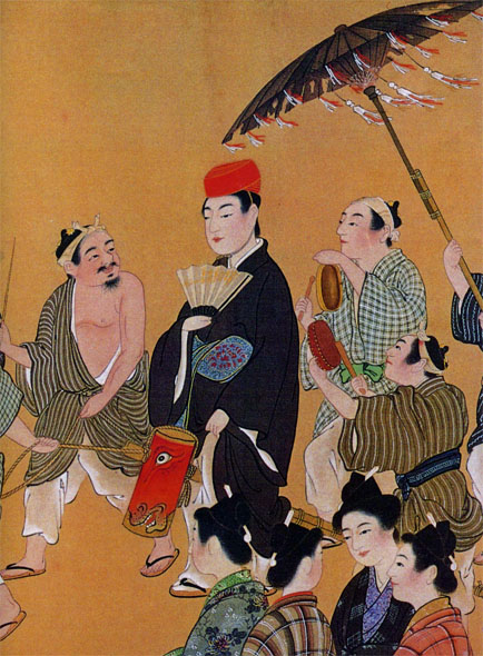 Wedding Scene in Ryukyu Kingdom